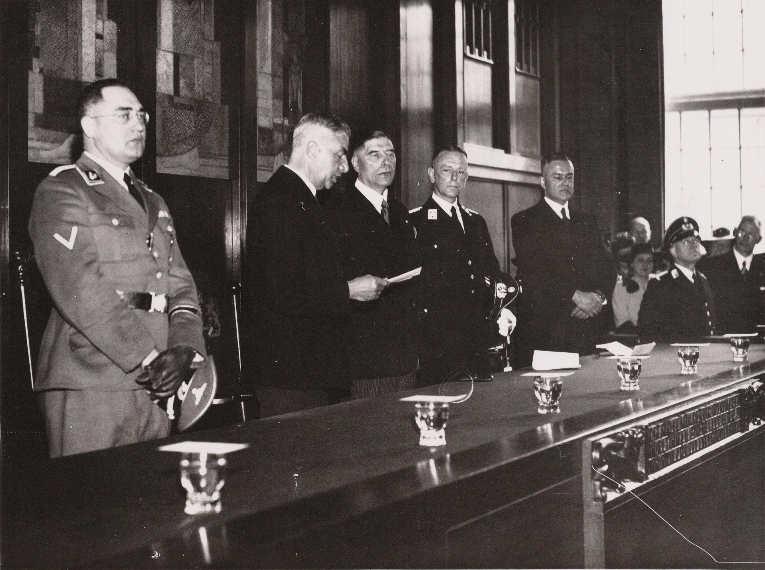 installatie hoofdcommissaris Tulp